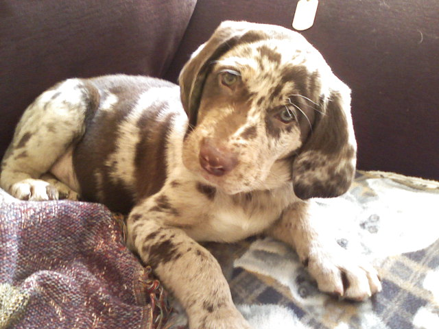 Catahoula cur, He was a rescue that I found out was a catahouala!